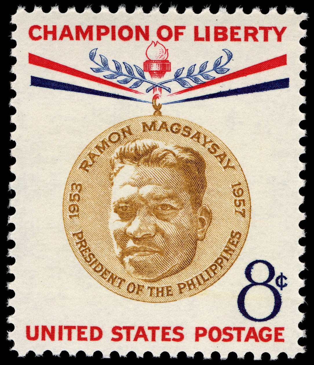 1957 8-cent U.S. stamp honoring Ramon Magsaysay - Champion of Liberty - President of the Philippines 1953-1957.